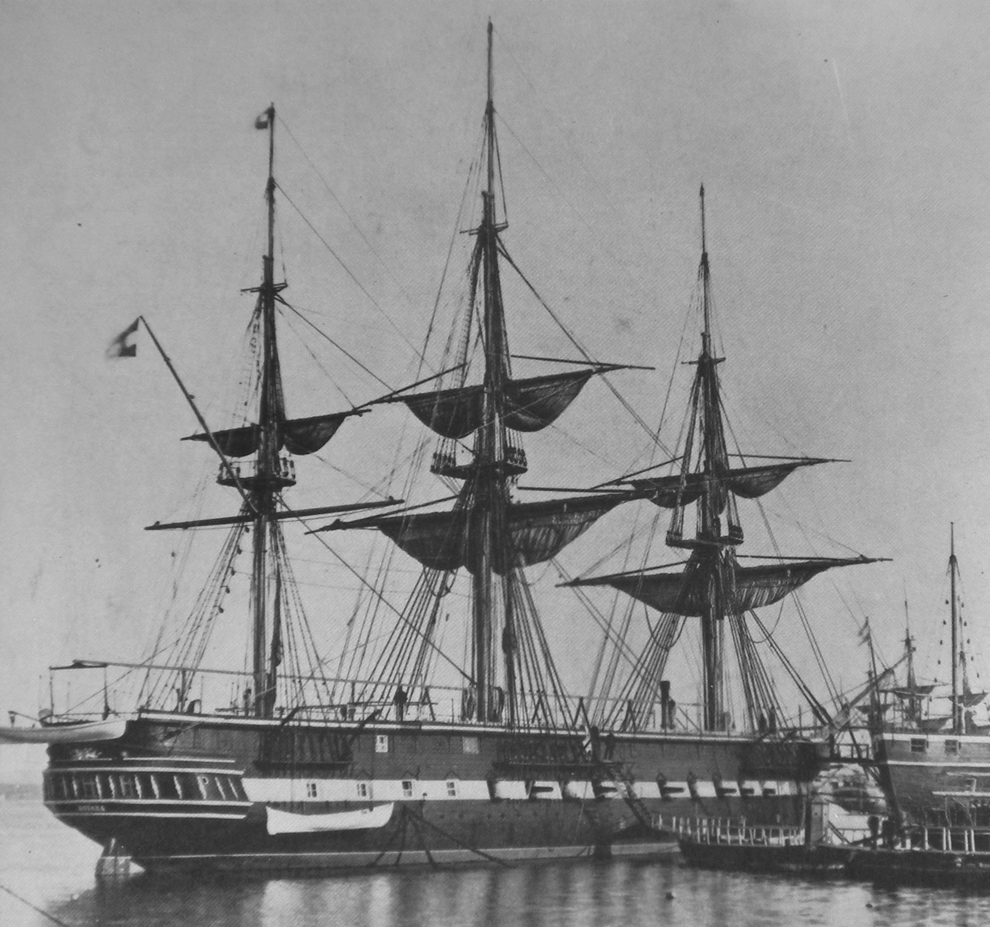 Austrian frigate Novara at the time of her circumnavigation. Mind some former gunports being turned into windows.